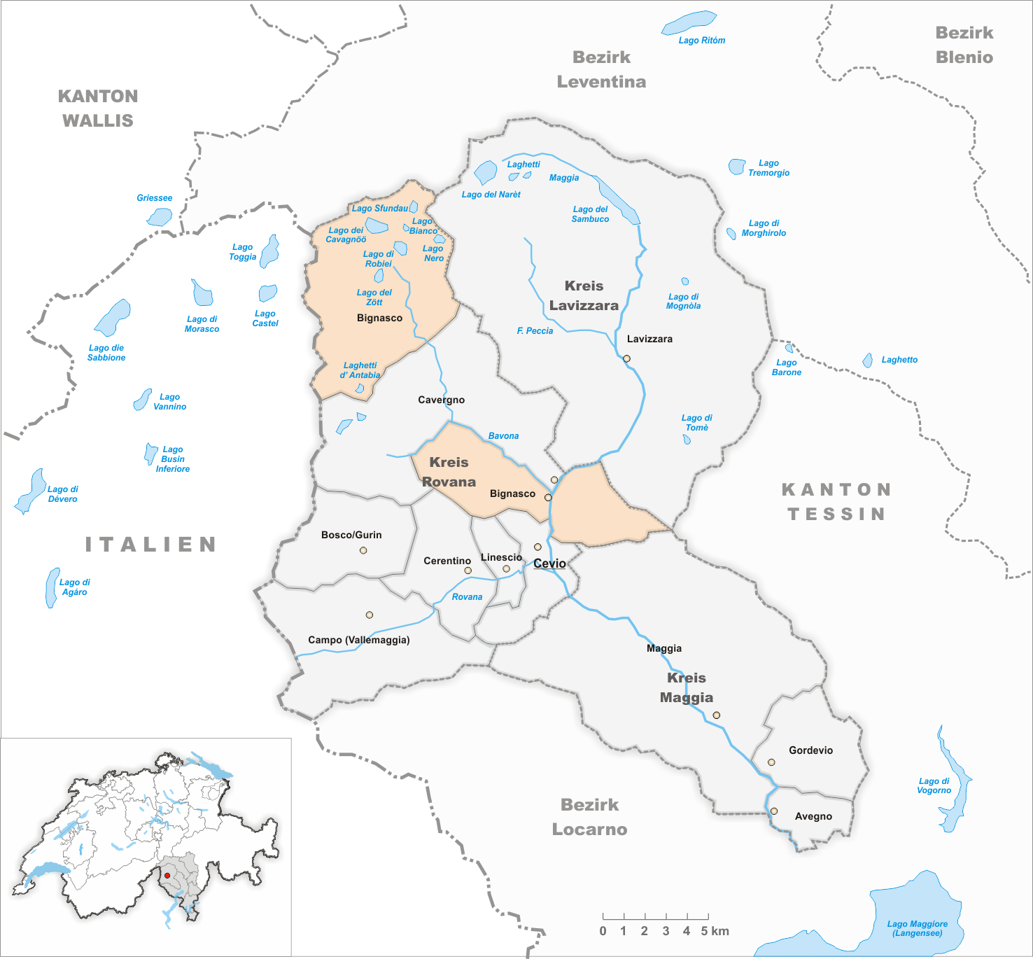 Municipality Bignasco